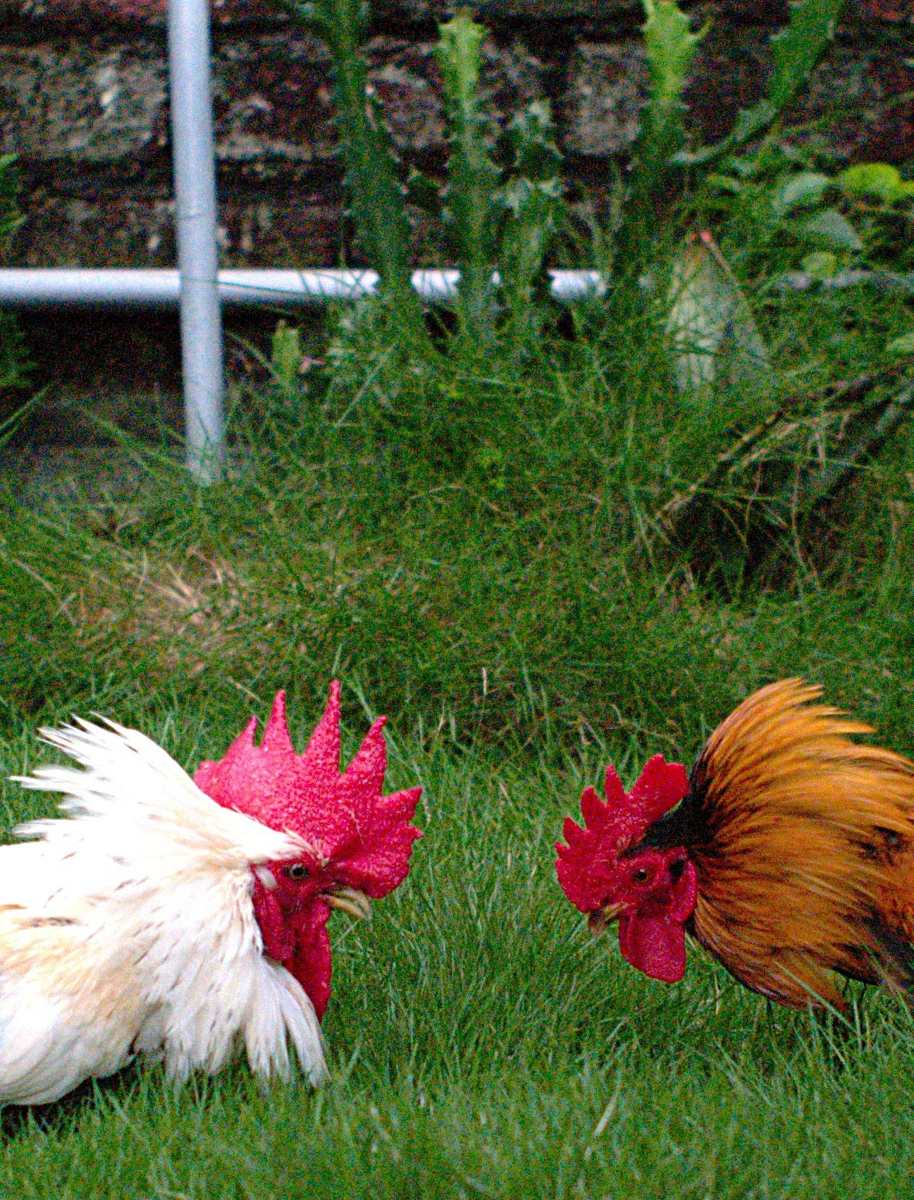 Photo taken off Flickr, under a CC-BY-SA 2.0 license. By Mohd Fahmi @